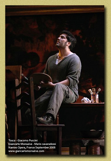 Giancarlo Monsalve as Mario Cavaradossi in Giacomo Puccini's 1900 opera Tosca, Premiere at Nantes Opera - France, September 2008